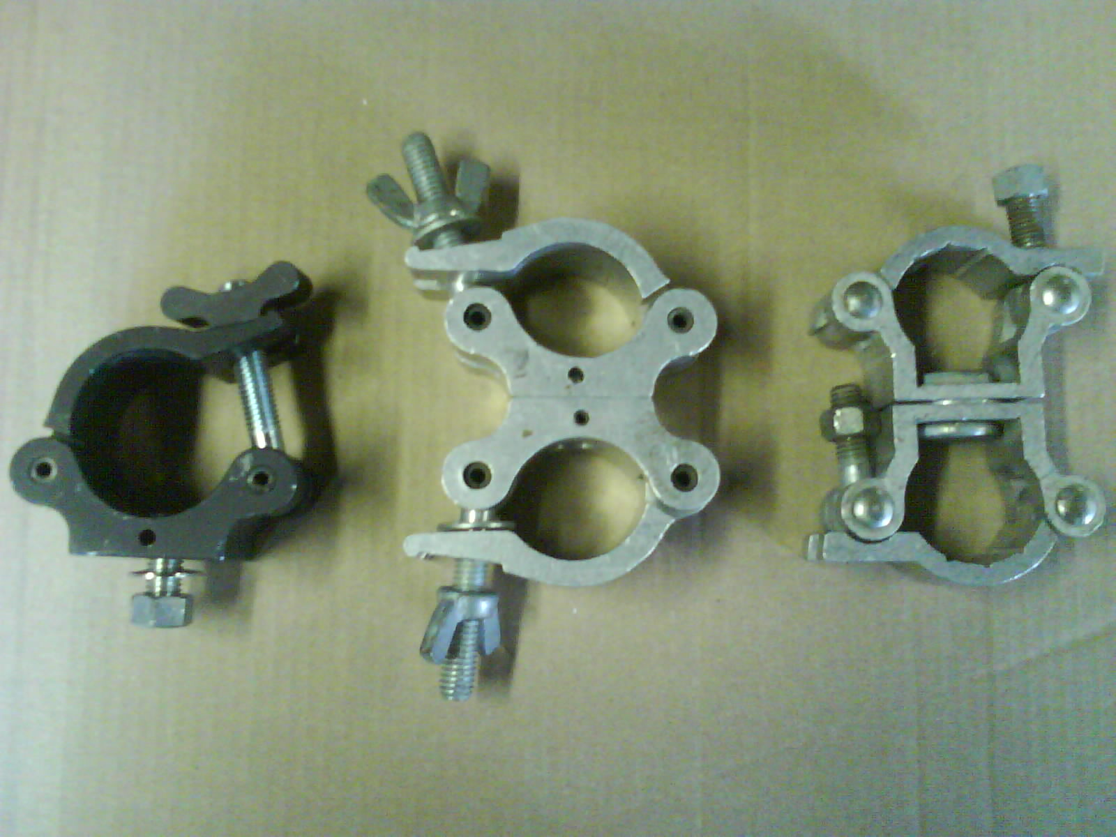 Assorted Cheseboroughs